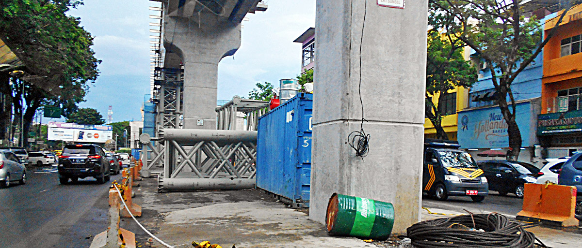 The Rail Line has installed above pillar in Jalan Panglima Besar Sudirman